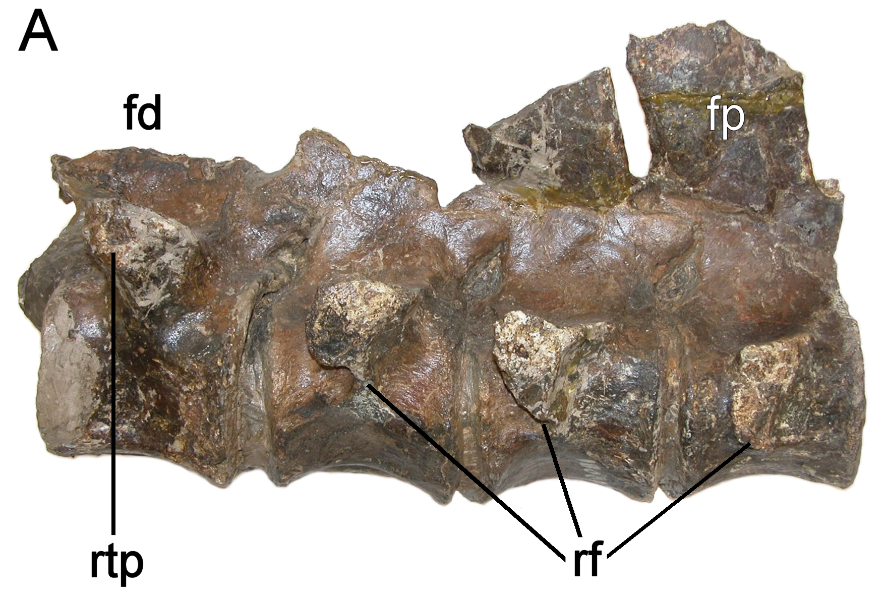 Pectoral vertebra series of Elasmosaurus platyurus (ANSP 10081). Abbreviations. crf = conjoint rib facet, dap = diapophysis, fd = first dorsal, fp = first pectoral, lc = last cervical, pap = parapophysis, rf = single rib facet, rtp = single rib facet on transverse process.